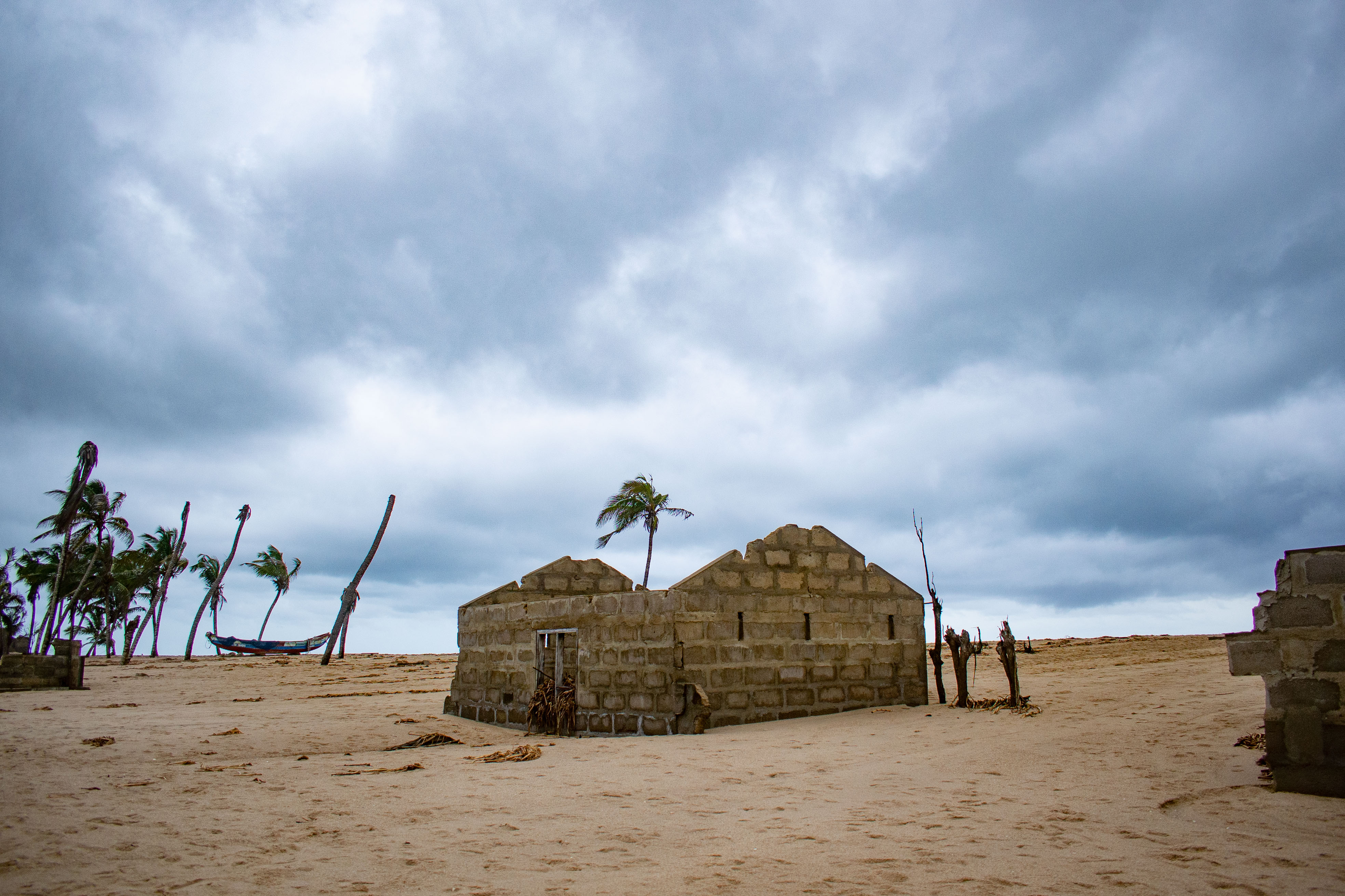 Data forwarding and Control plane